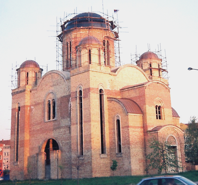 Orthodox church under construction in Novo Naselje neighborhood in Novi Sad.